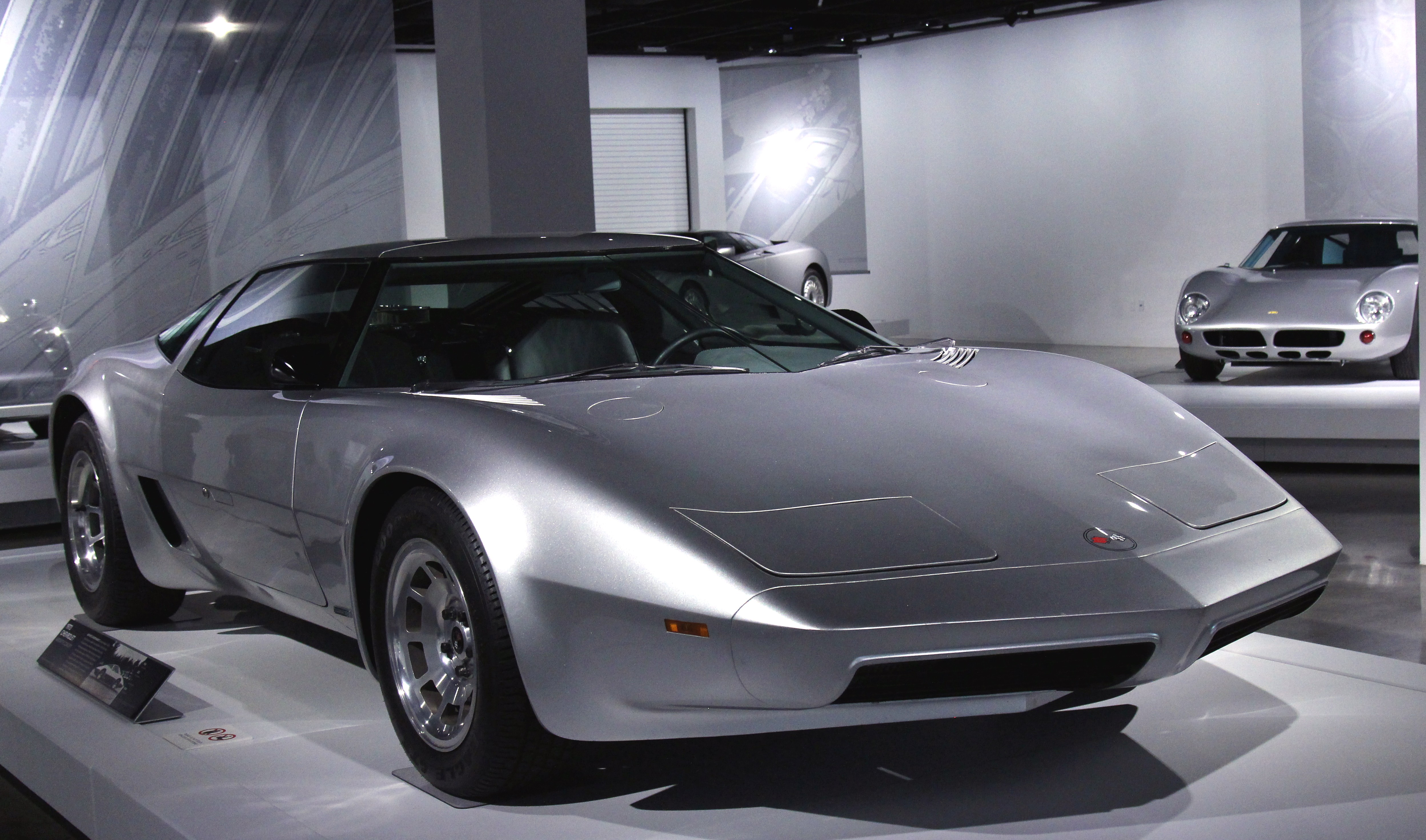 1973 Chevrolette Aerovette A favorite design of Zora Arkus Duntov, so called "founding father" of the Corvette Petersen Automotive Museum Los Angeles, California